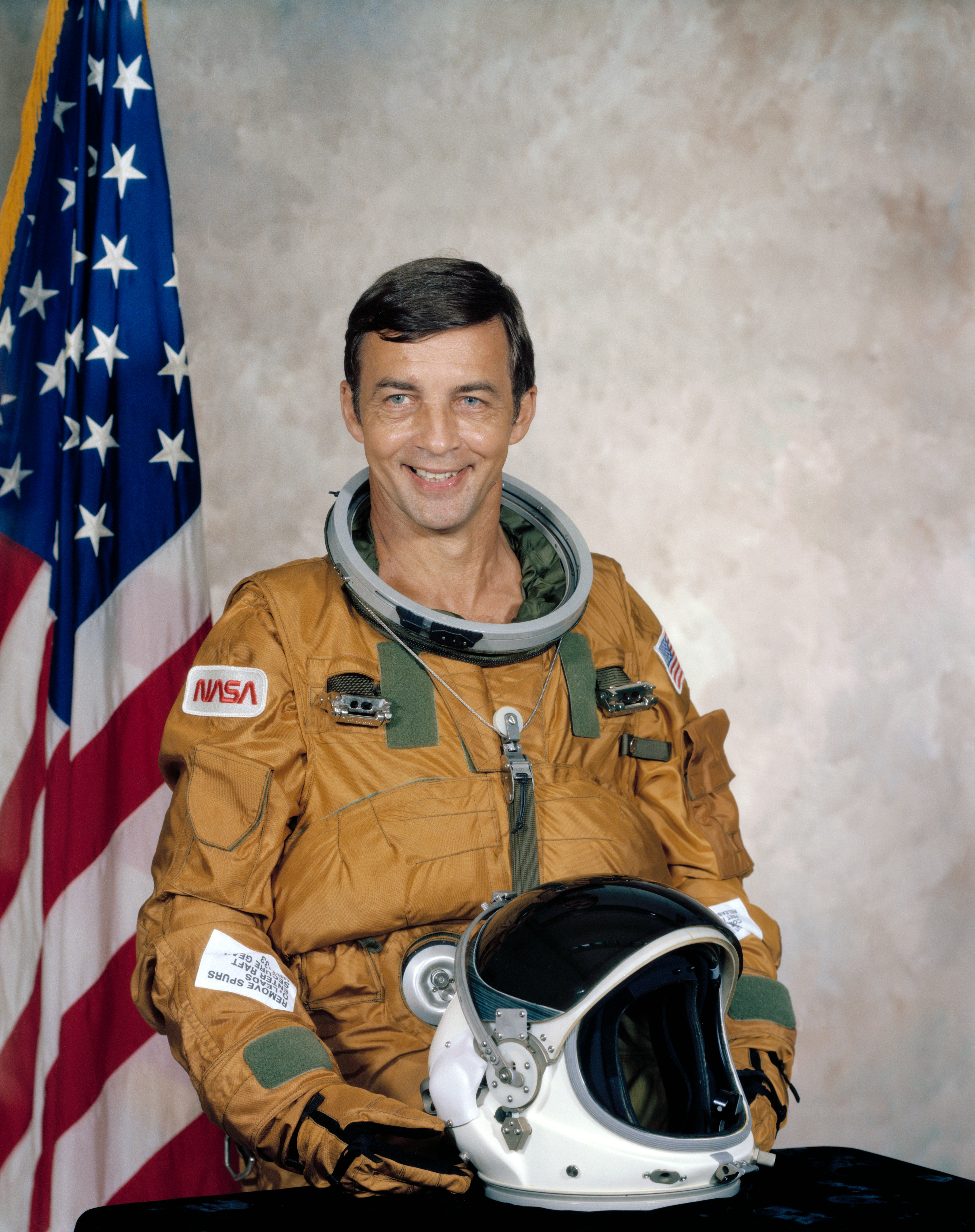 Offical portrait of Astronaut Donald H. Peterson posing in ejection escape suit (EES) holding helmet.